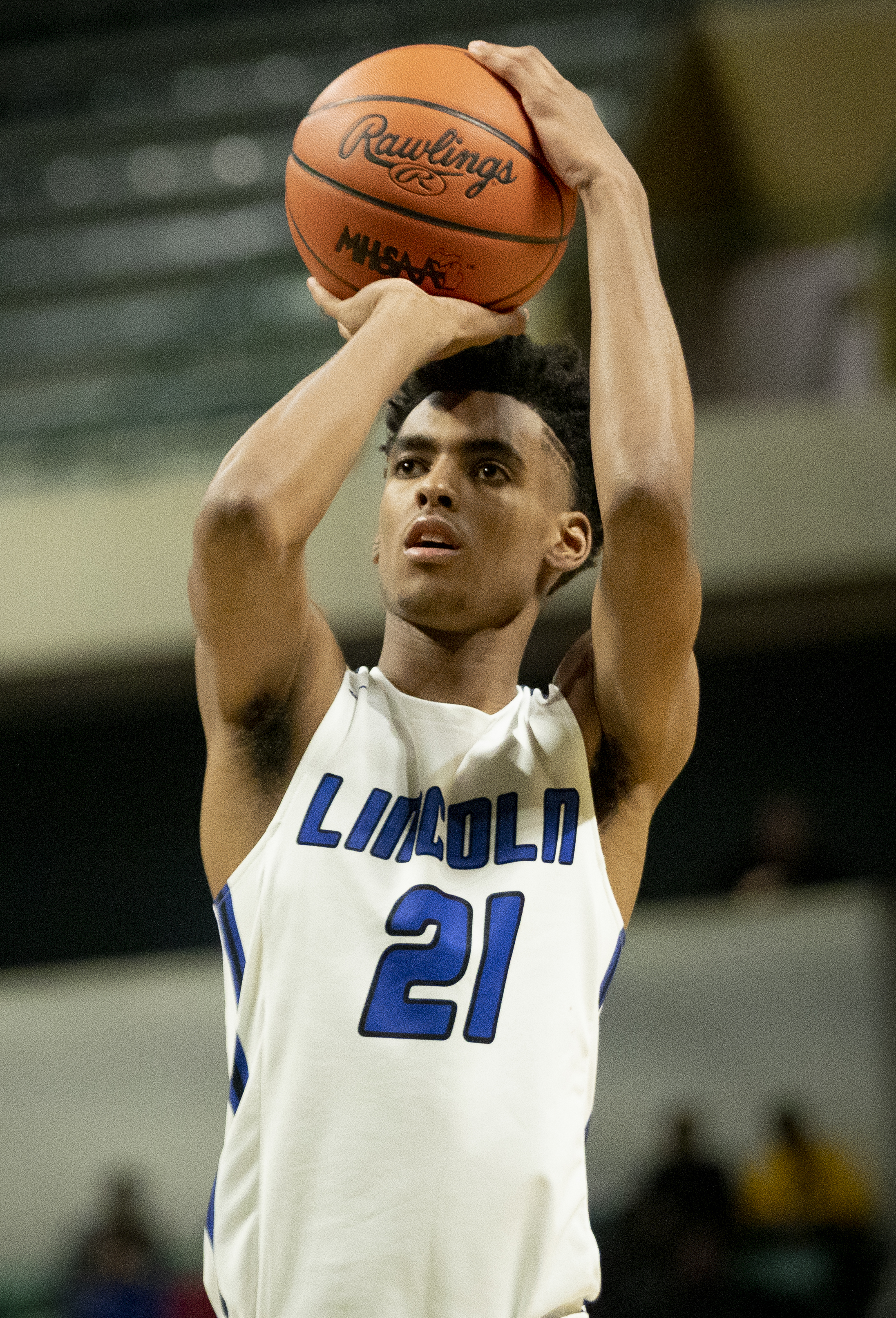 Emoni Bates with Lincoln High School in December 2019